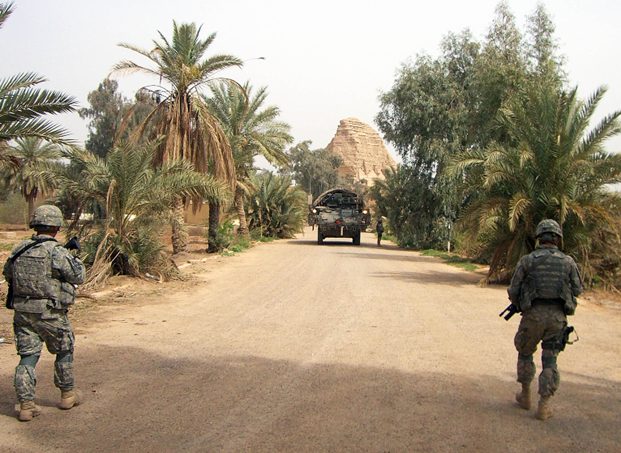 Soldiers of 4th Stryker Brigade Combat Team, 2nd Infantry Division, approach the ziggurat at Aqar Quf, March 11. The ziggurat, once a popular tourist destination west of Baghdad, now sits dormant. Soldiers of the 16th Engineer Brigade Survey and Design Team traveled to the ancient ziggurat to assess and verify the electrical needs of renovating two modern structures at the base of the temple.